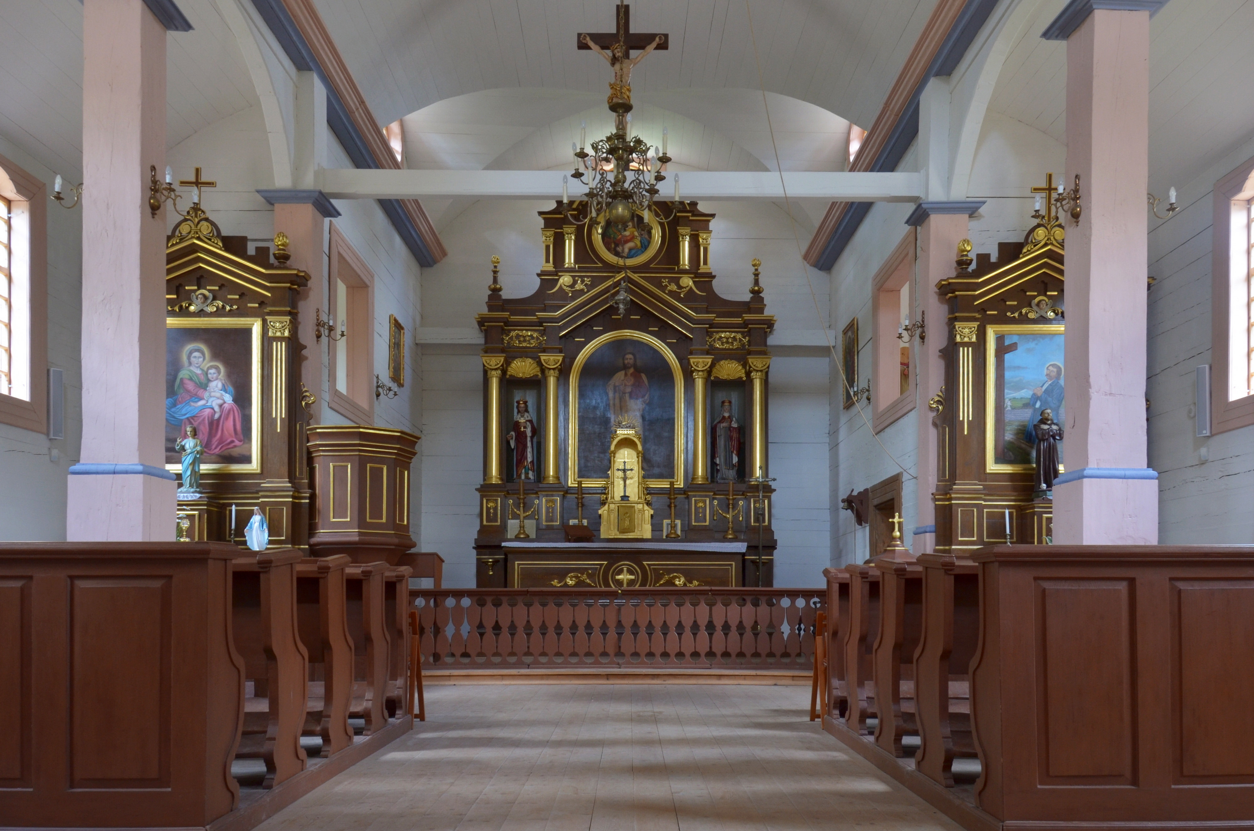 Sierpc, Museum of the Mazovian Countryside, Sacred Heart church from Drążdżewo